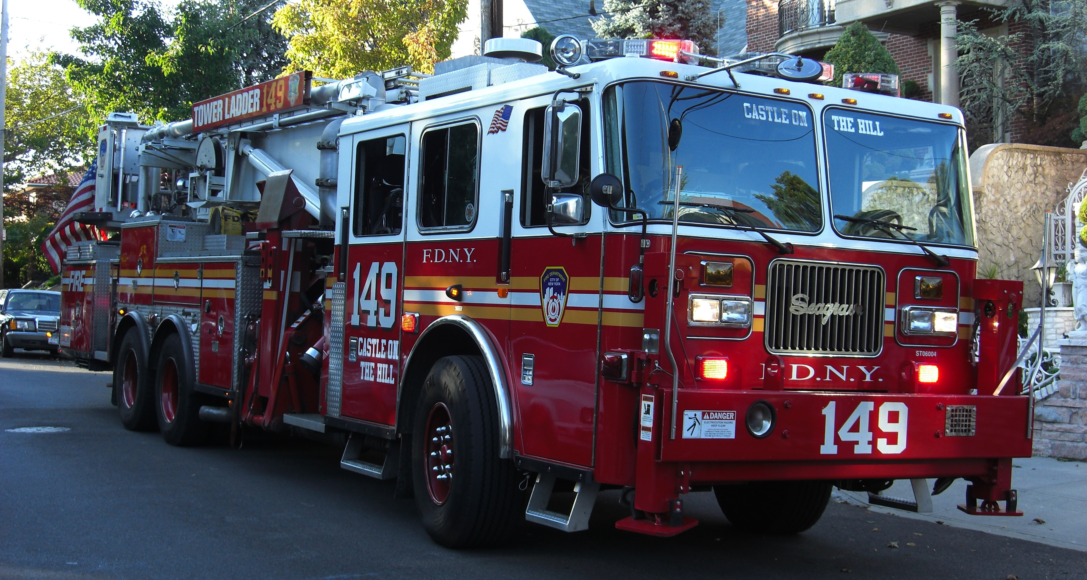 Castle on the Hill - FDNY’s Ladder Company 149 seen in action on 85th Street in Dyker Heights.